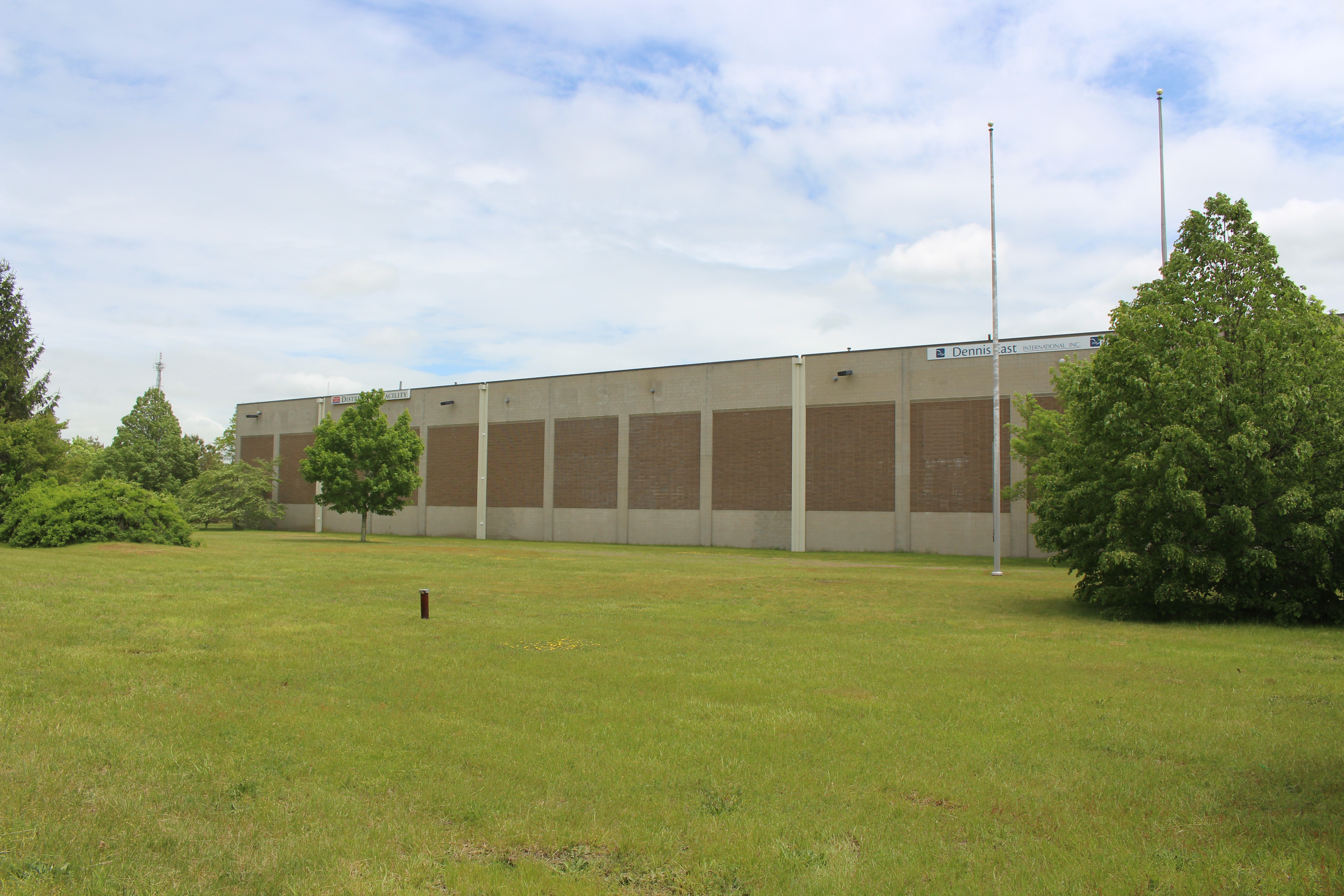 Front of the Cape Cod Coliseum.